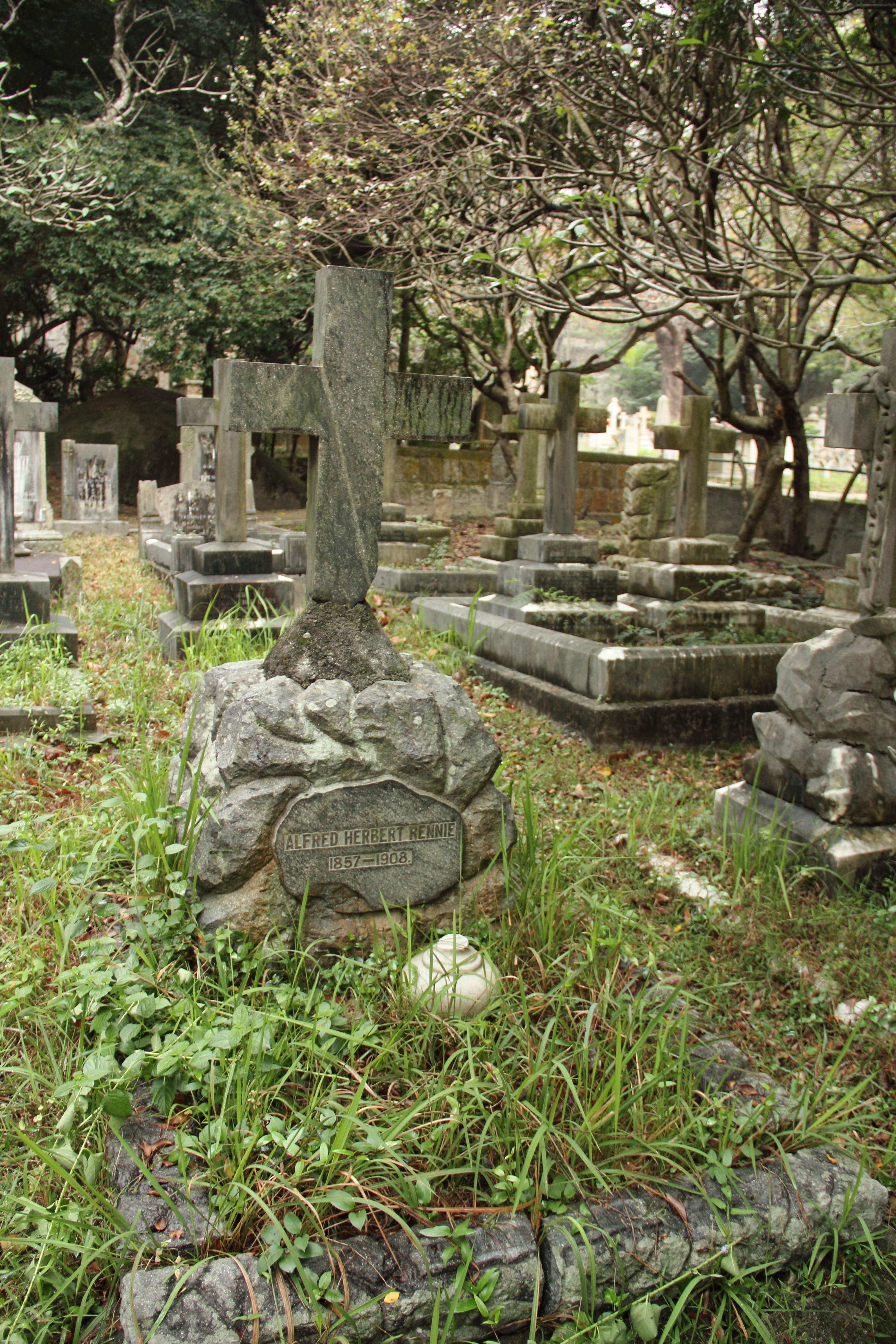 Tomb of Alfred Herbert Rennie (1857-1908) at Hong Kong Cemetery